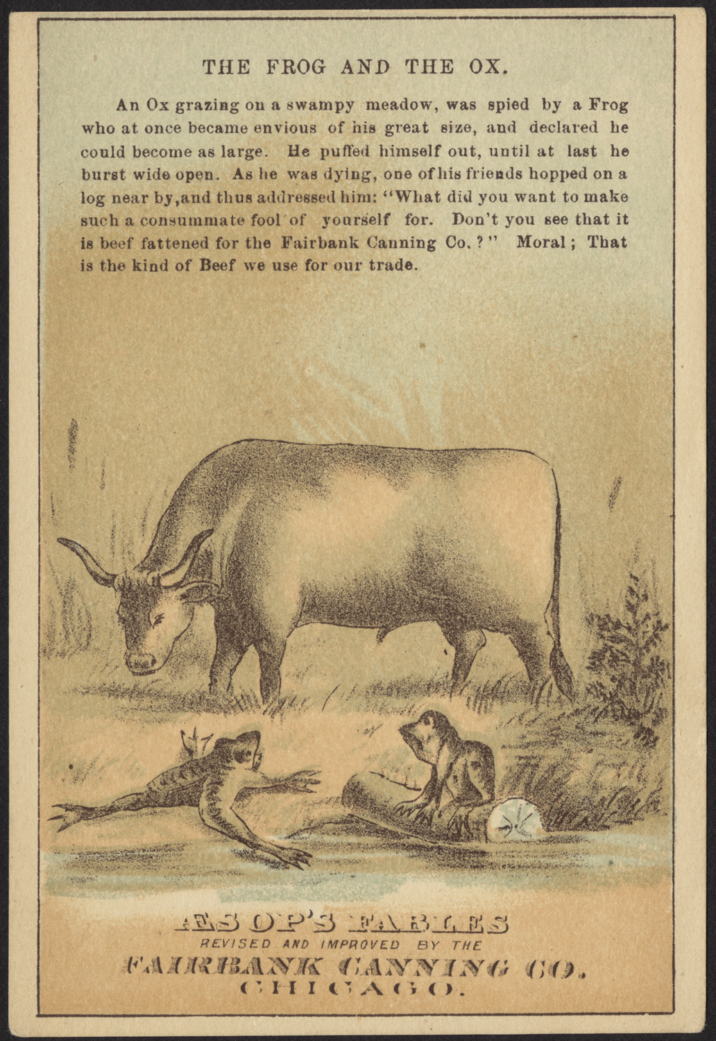 File name: 10_03_000157a Binder label: Meat Title: The frog and the ox, Aesop's fables revised and improved by the Fairbank Canning Co., Chicago [front] Date issued: 1870 - 1900 (approximate) Physical description: 1 print : chromolithograph ; 13 x 9 cm. Genre: Advertising cards Subject: Oxen; Frogs; Meat Notes: Title from item. Item verso is blank. Statement of responsibility: Fairbank Canning Co. Collection: 19th Century American Trade Cards Location: Boston Public Library, Print Department Rights: No known restrictions.